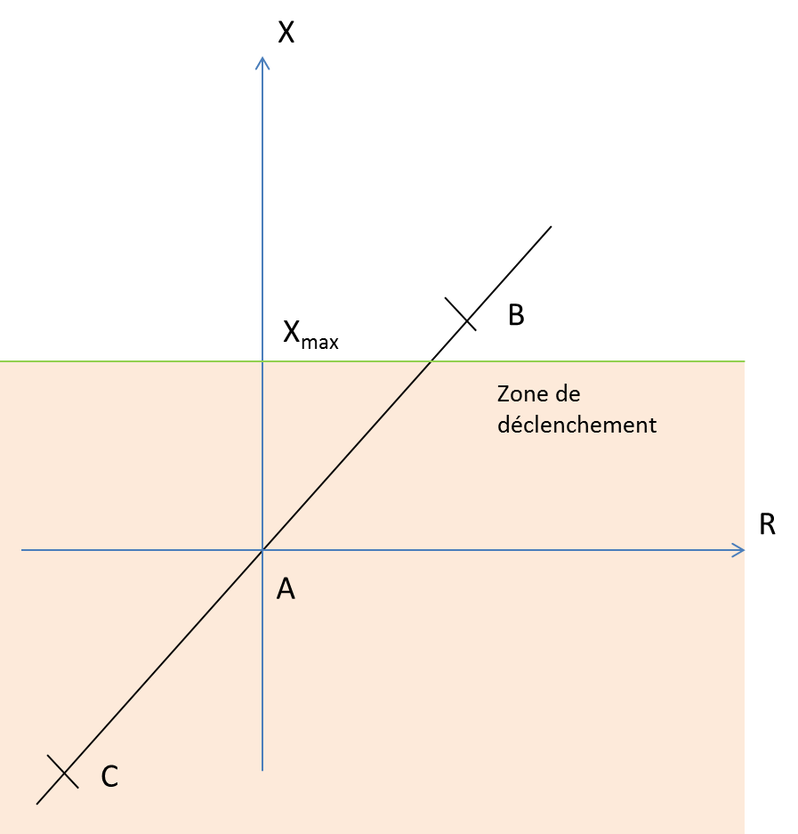 Diagram from a reactive characteristic for distance protection